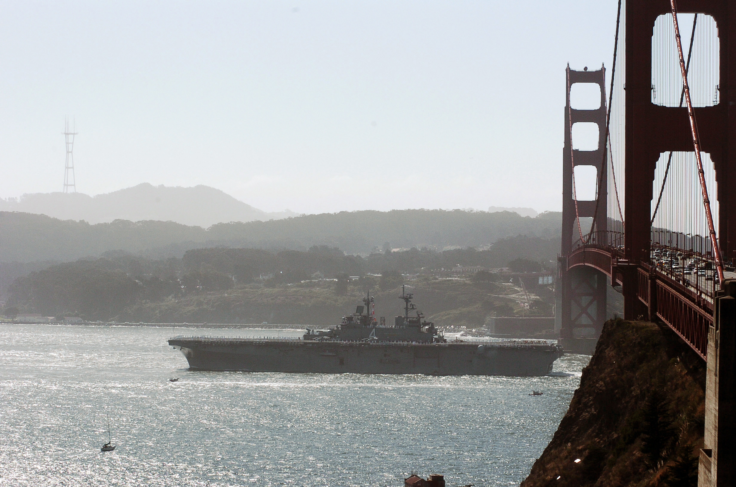 San Francisco (Oct. 8, 2005) – The amphibious assault ship USS Boxer (LHD 4) passes the Golden Gate Bridge in San Francisco as she prepares to enter port for the 2005 San Francisco Fleet Week celebration. Fleet Week is a 5-day celebration is held annually to recognize the contributions and sacrifices made by members of the Armed Forces. U.S. Navy photo by Journalist Seaman S. C. Irwin (RELEASED)